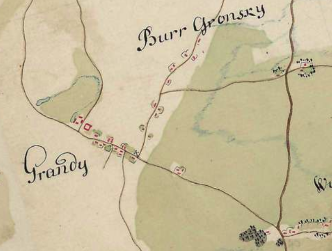 Historical map Josephinische Landesaufnahme 1764-1787 of Vienna (Wien) / Austria (Österreich) / European Union (Europäische Union) and surroundings, Lower Austria